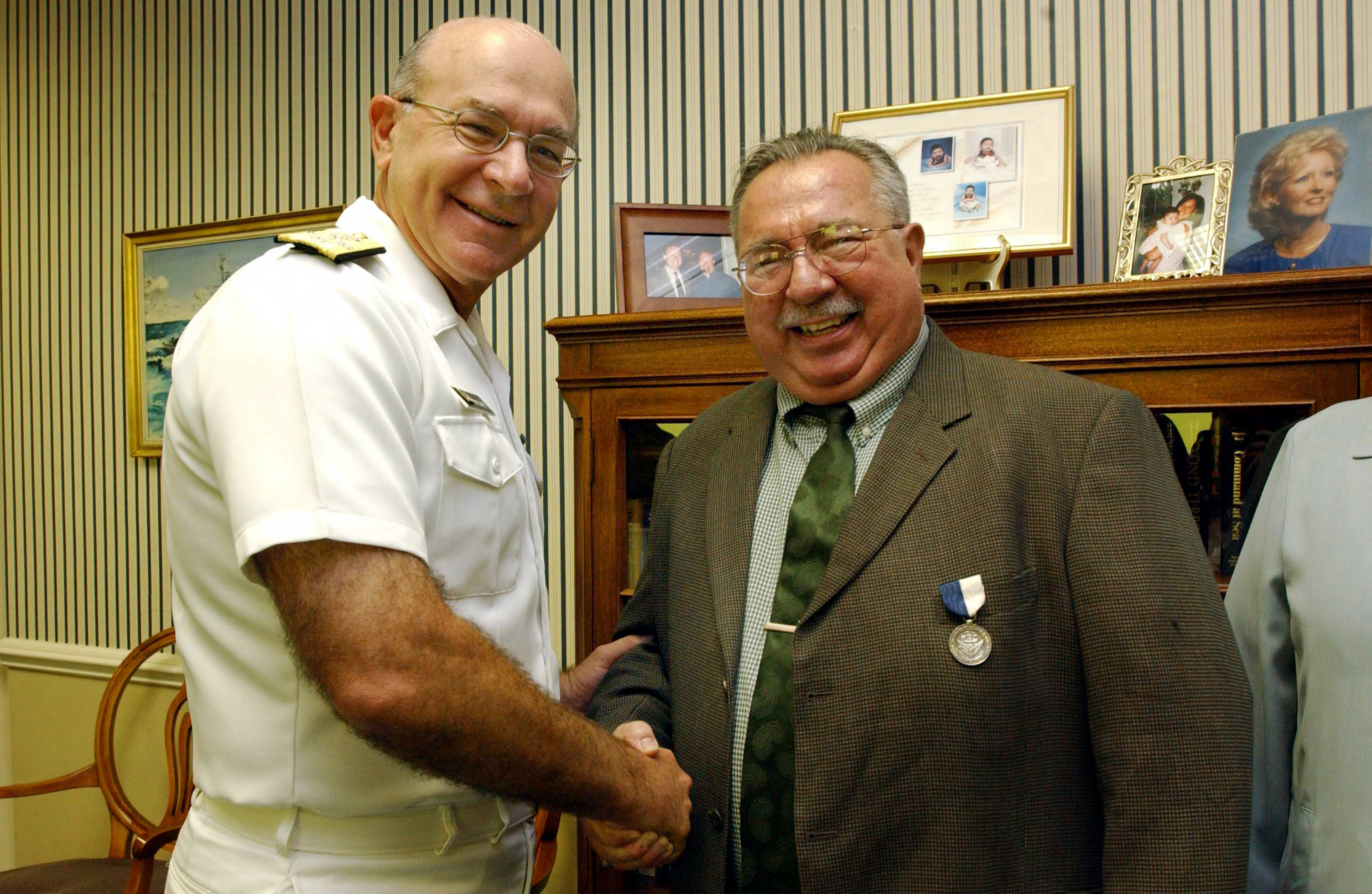 Original image caption: 021004-N-2383B-522 ARLINGTON, Va. (Oct. 4, 2002) -- Admiral Vern Clark, Chief of Naval Operations congratulates Mr. John Burlage, Senior Staff Writer for Navy Times after presenting him the Superior Public Service Award. Burlage is noted for his coverage of issues that affected Sailors’ lives over the past 18 years. Burlage is a retired Master Chief Journalist who engaged in challenging assignments over a naval career spanning 25-years. The Superior Public Service Award is the second highest civilian award and recognizes "the significant contributions by a civilian to the Navy, Marine Corps or the entire Department of the Navy.